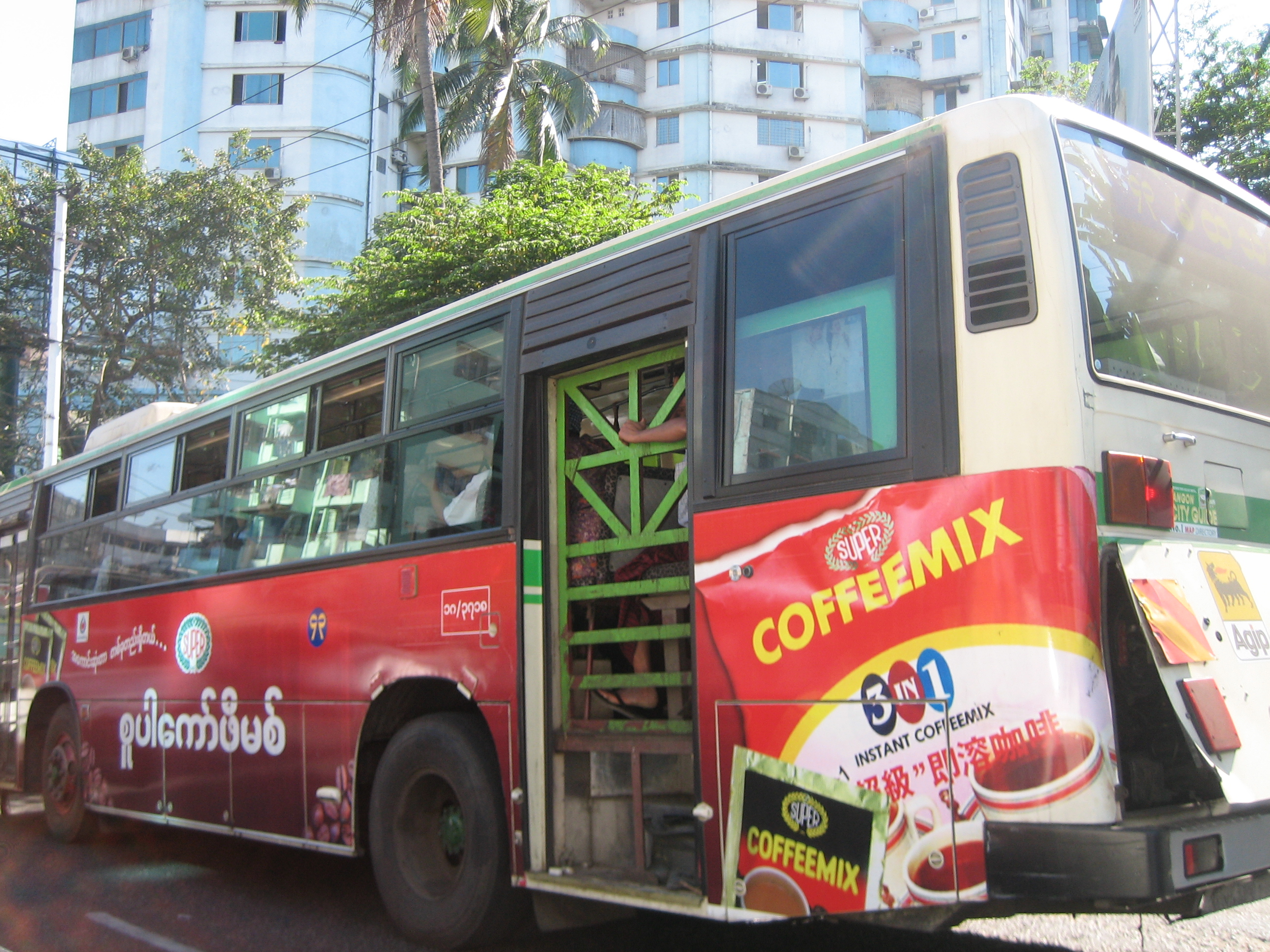 Yangon Bus